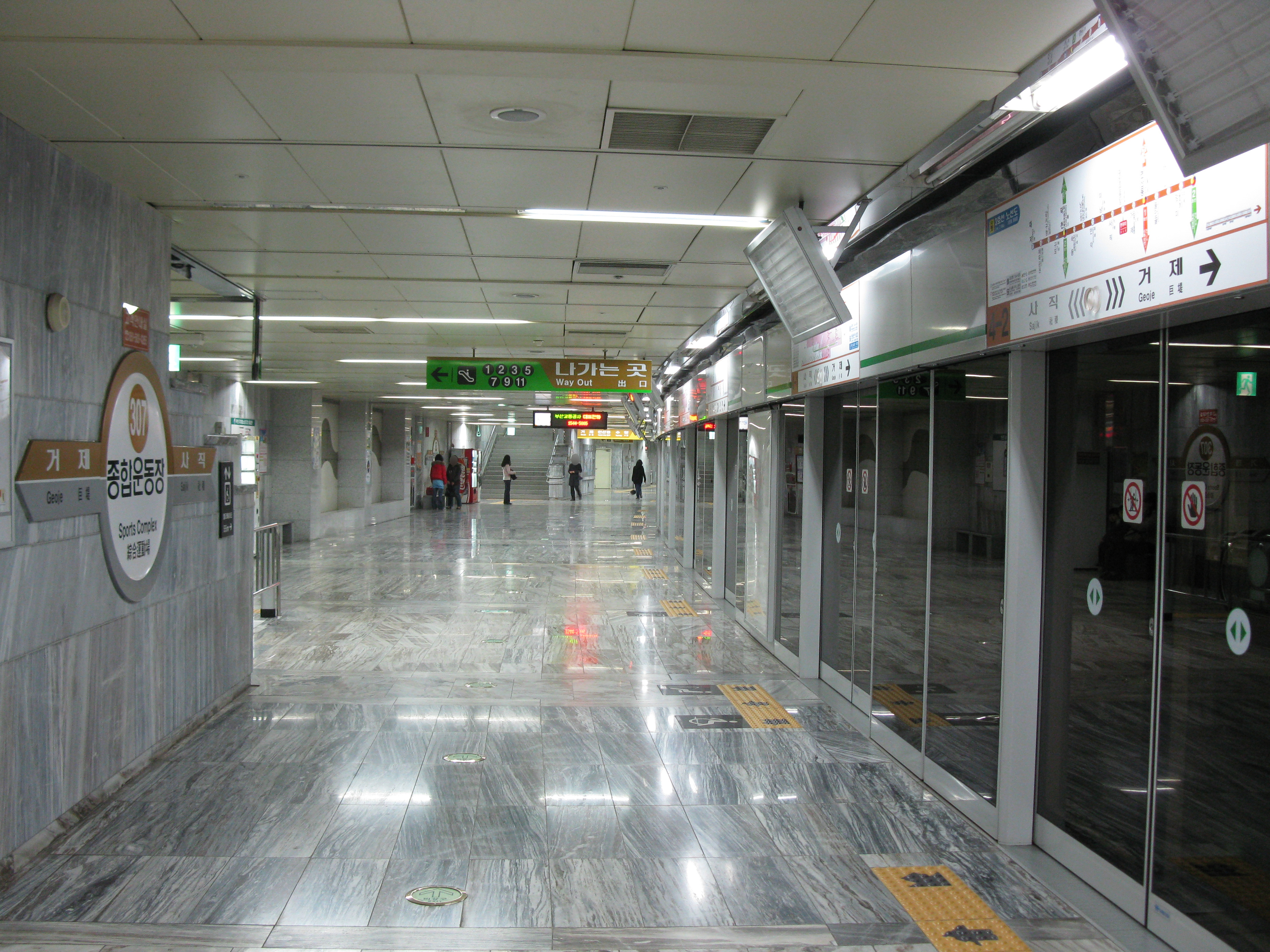 A platform of Sports Complex Station, Busan Subway Line 3